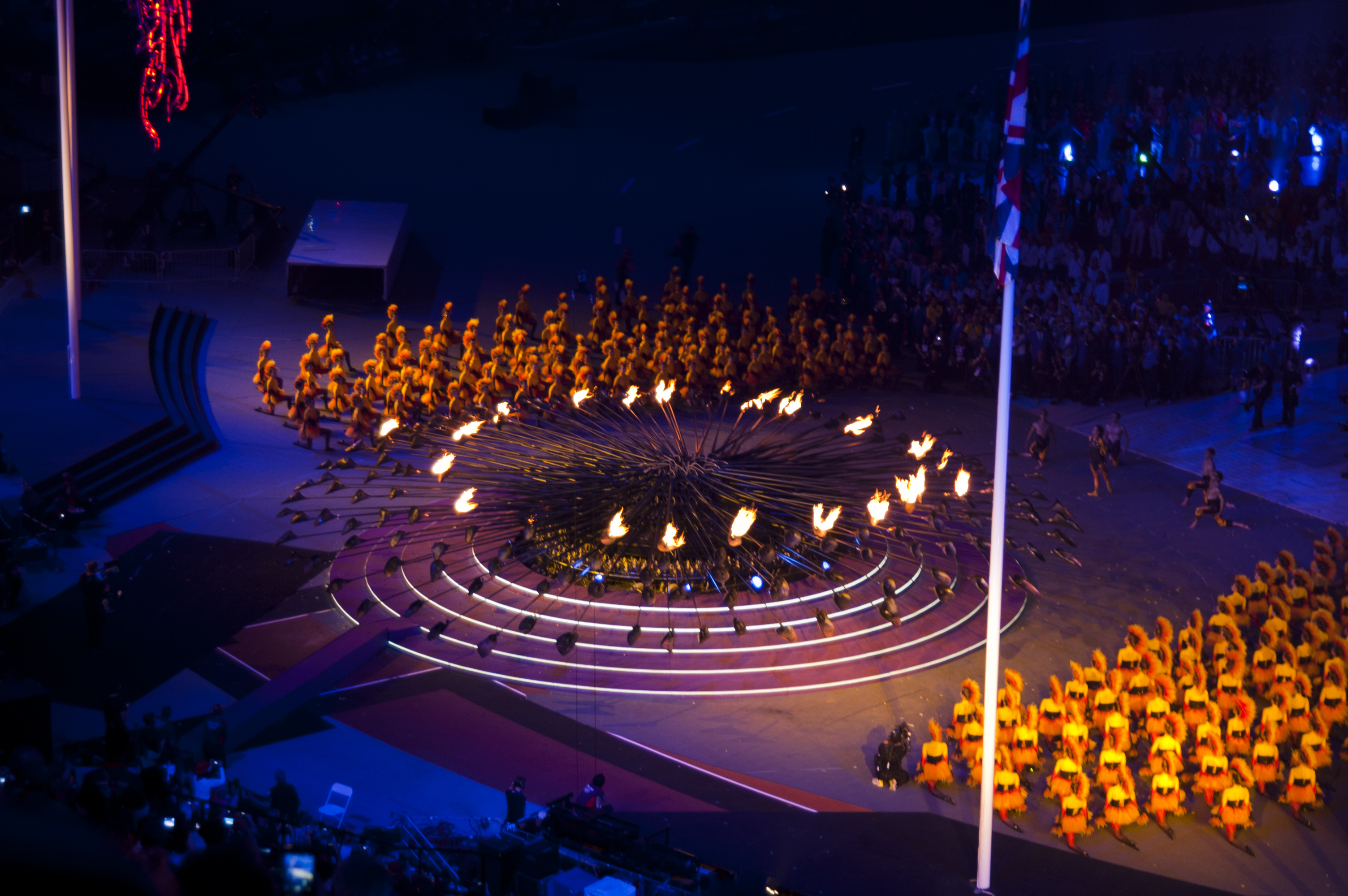 The 2012 Olympic flame slowly going out.